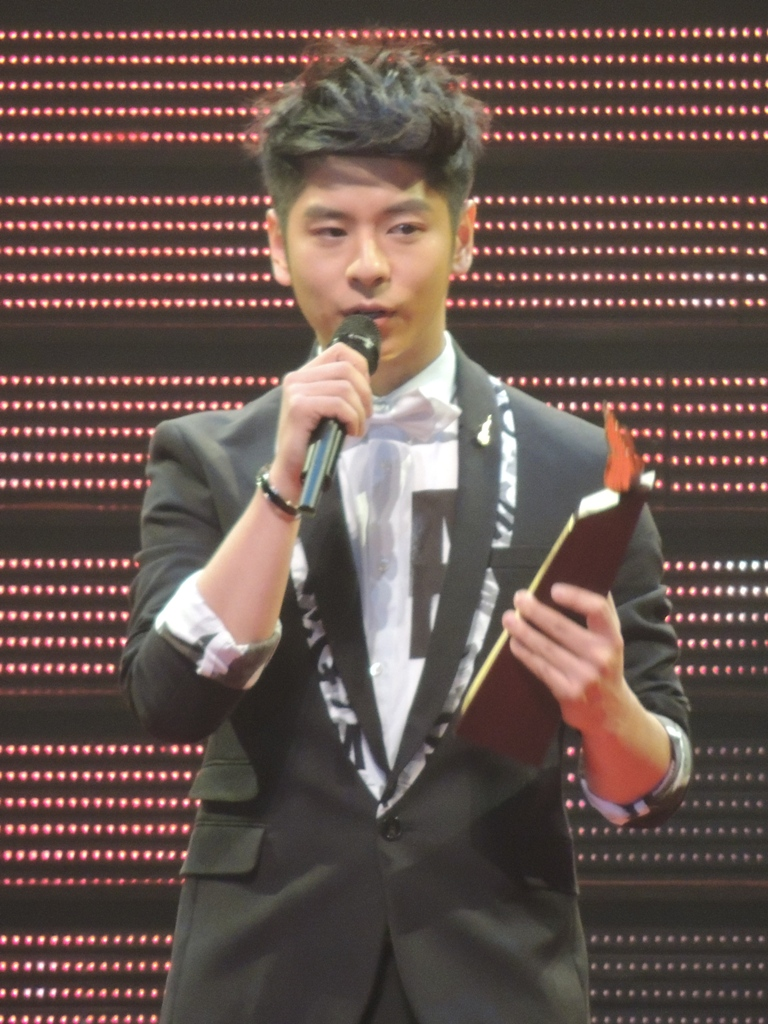 Ultimate Song Chart Awards 2013